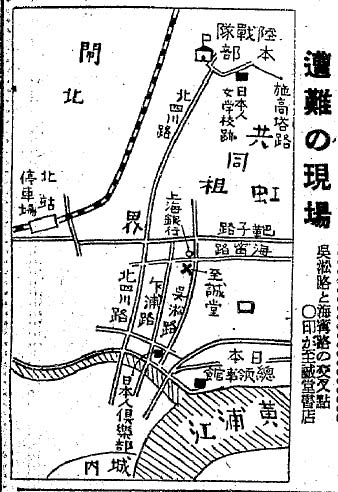 Map showing the site of the murder of Tomomitsu Taminato